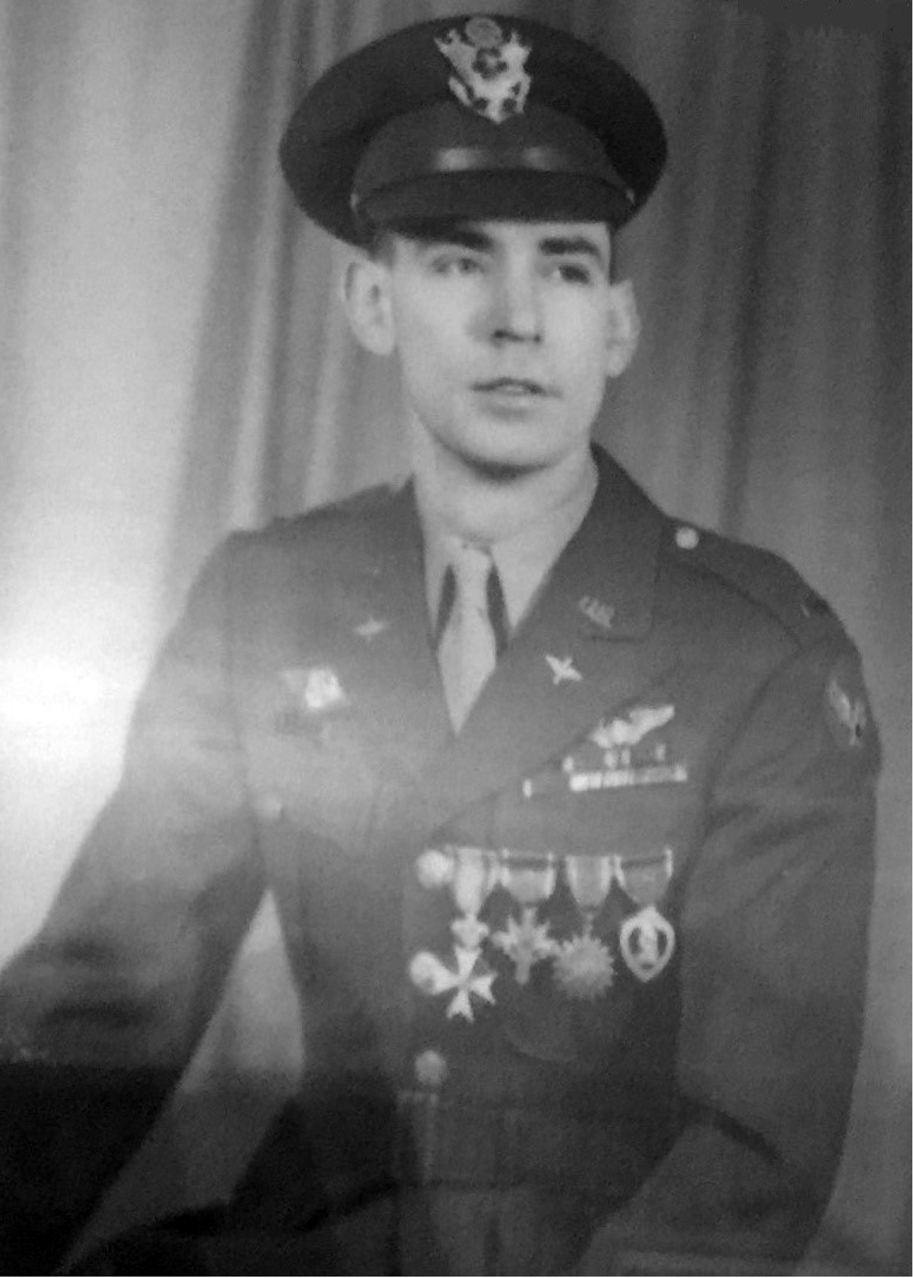 The young lieutenant Edward S. Fulmer after receiving knighthood in the Military Order of William by Queen Wilhelmina of the Netherlands.